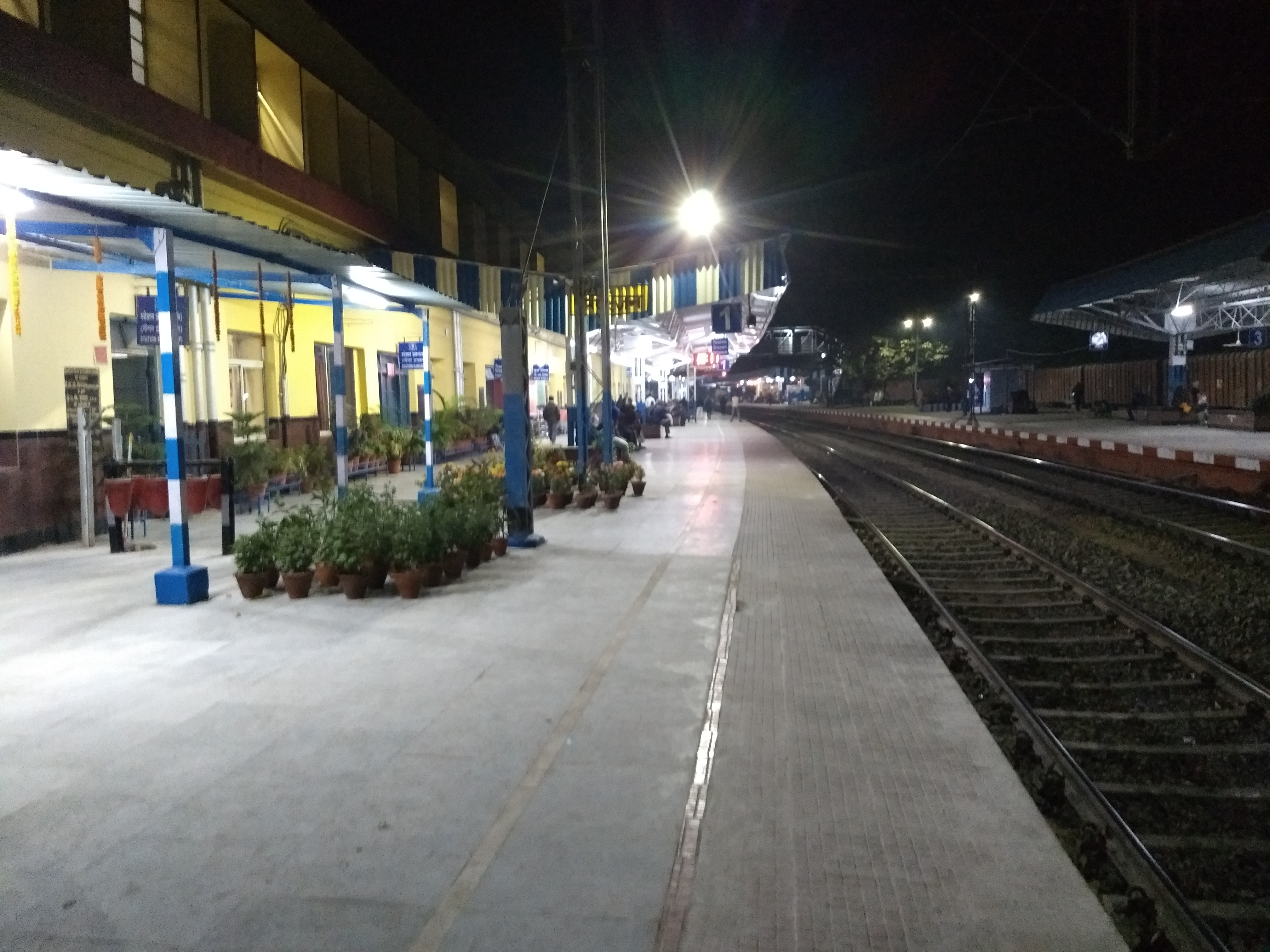 Platform at Chittaranjan Railway Station